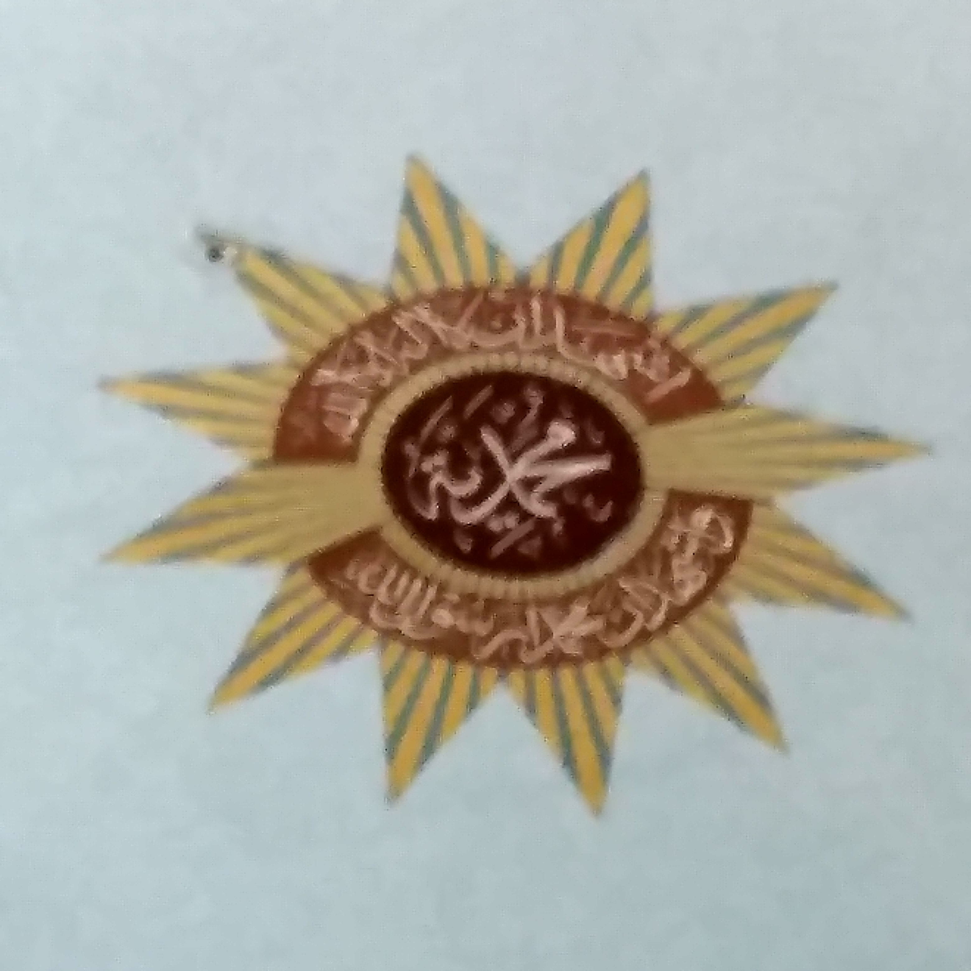 The logo of Persyarikatan Muhammadiyah under the dome of the mosque on the second floor of the Taqwa Muhammadiyah Mosque in Padang, West Sumatra, Indonesia.